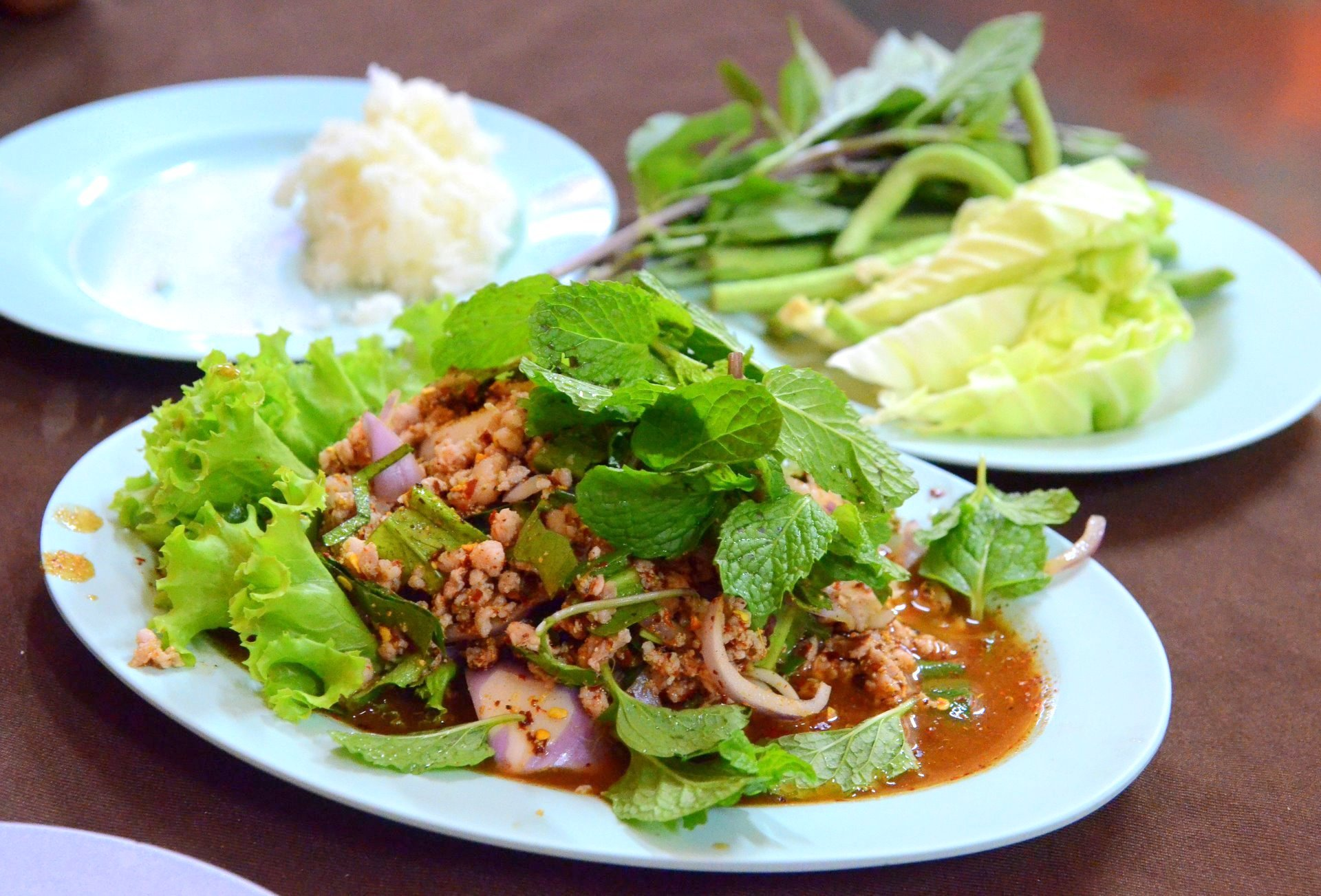 Lap mu (Thai script: ลาบหมู) at a 24hr Isan (north-eastern Thai) karaoke bar in Bangkok which serves Isan food in the evenings until late at night. This particular version of the Isan minced pork salad was extremely spicy and contained copious amounts of ground dried chillies, ground roasted sticky rice (khao khua, giving the dish a nutty taste), culantro and mint. Raw vegetables such as yardlong beans and white cabbage, as well as Thai holy basil (bai kraphao) are served together with the lap as can be seen in the background of this photo. It is often, as in this photo, eaten with sticky rice (khao niao).